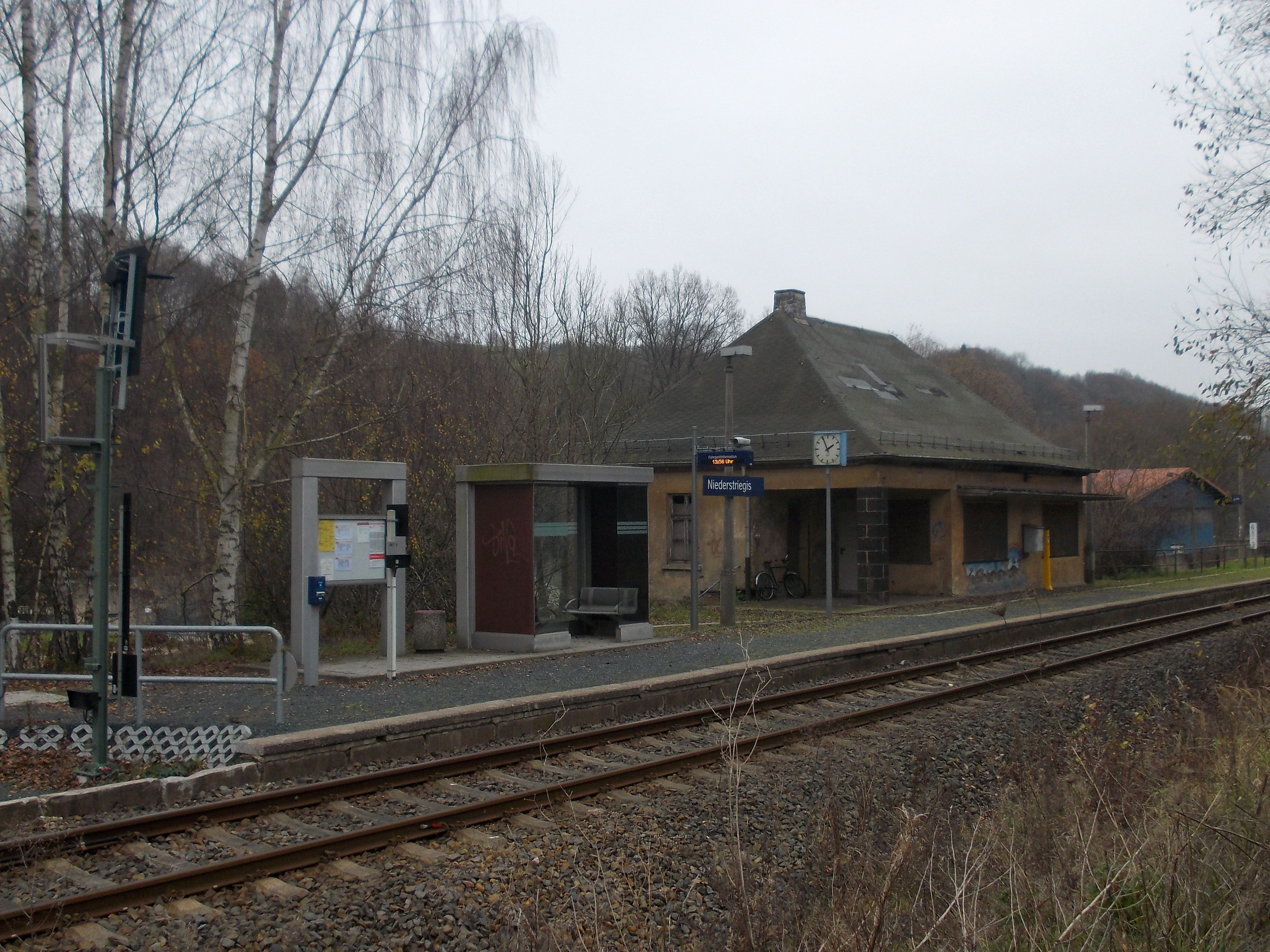 Niederstriegis train station (Rosswein, Mittelsachsen district, Saxony)